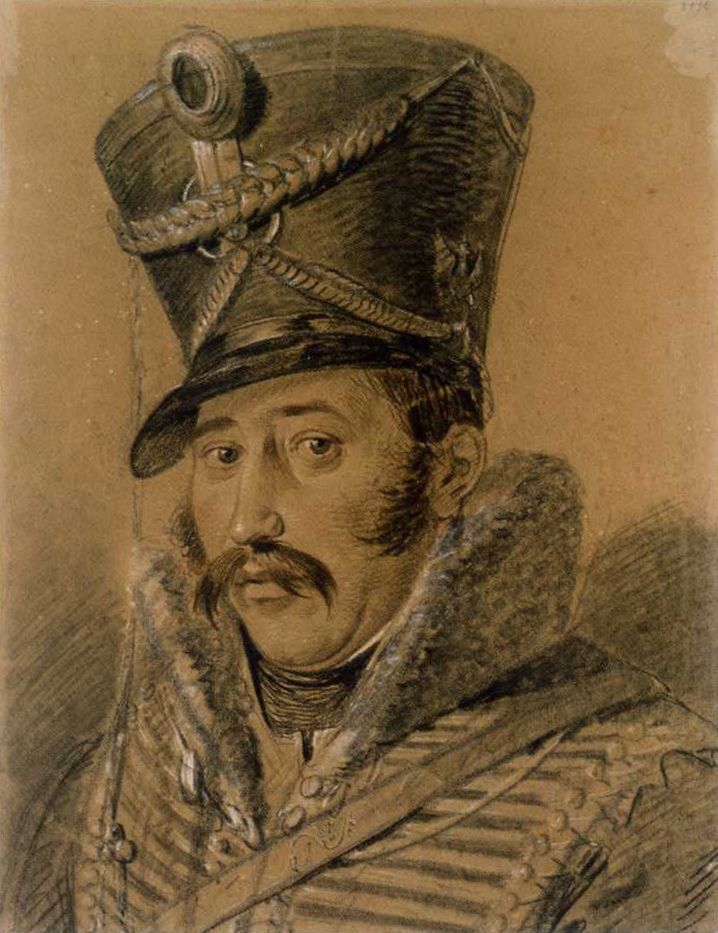 Portrait of Ferdinand von Schill